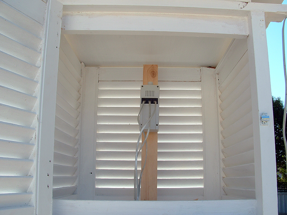 Inside a home-made single louvered stevenson screen.